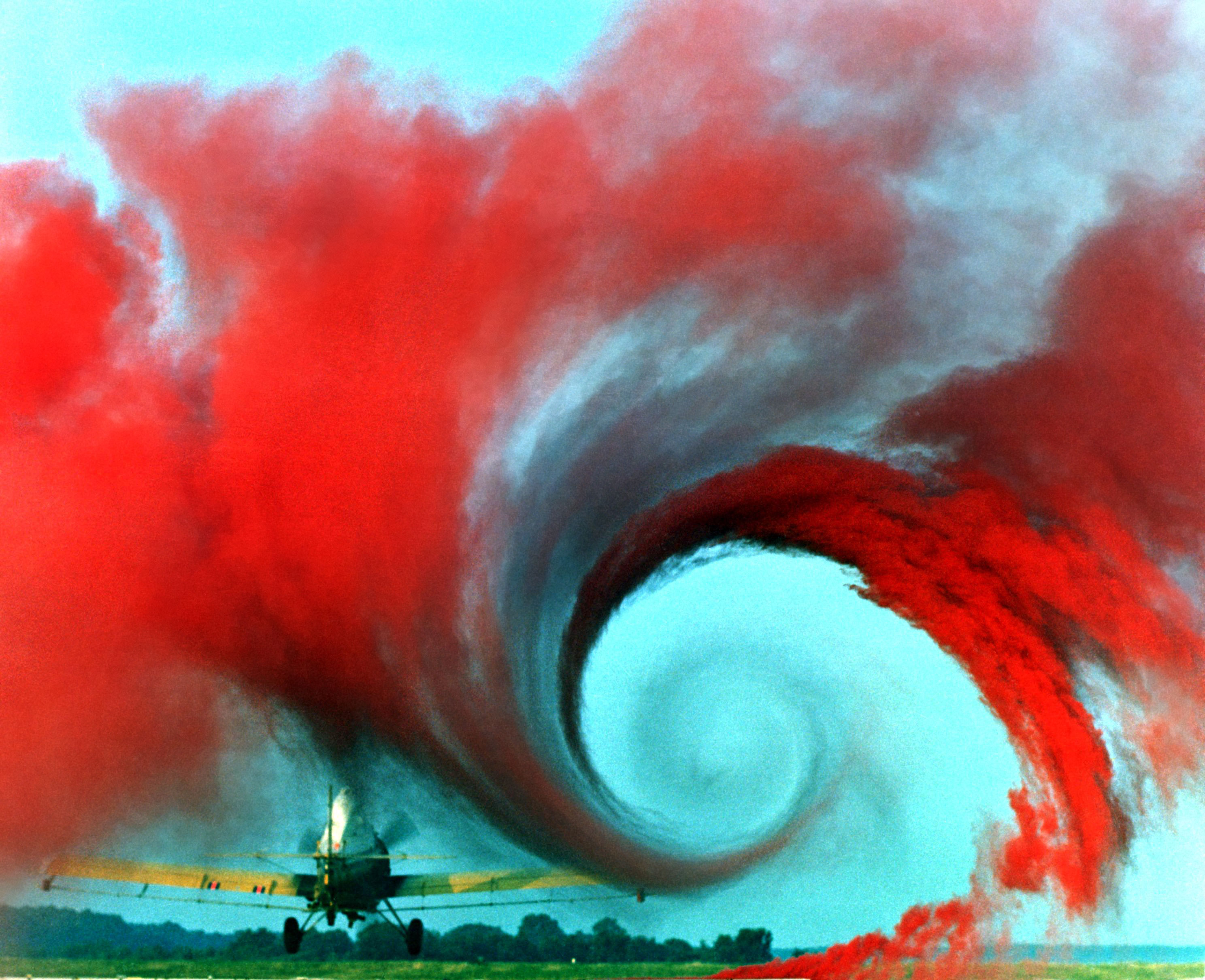 Wake Vortex Study at Wallops Island The air flow from the wing of this agricultural plane is made visible by a technique that uses colored smoke rising from the ground. The swirl at the wingtip traces the aircraft's wake vortex, which exerts a powerful influence on the flow field behind the plane. Because of wake vortex, the Federal Aviation Administration (FAA) requires aircraft to maintain set distances behind each other when they land. A joint NASA-FAA program aimed at boosting airport capacity, however, is aimed at determining conditions under which planes may fly closer together. NASA researchers are studying wake vortex with a variety of tools, from supercomputers, to wind tunnels, to actual flight tests in research aircraft. Their goal is to fully understand the phenomenon, then use that knowledge to create an automated system that could predict changing wake vortex conditions at airports. Pilots already know, for example, that they have to worry less about wake vortex in rough weather because windy conditions cause them to dissipate more rapidly.